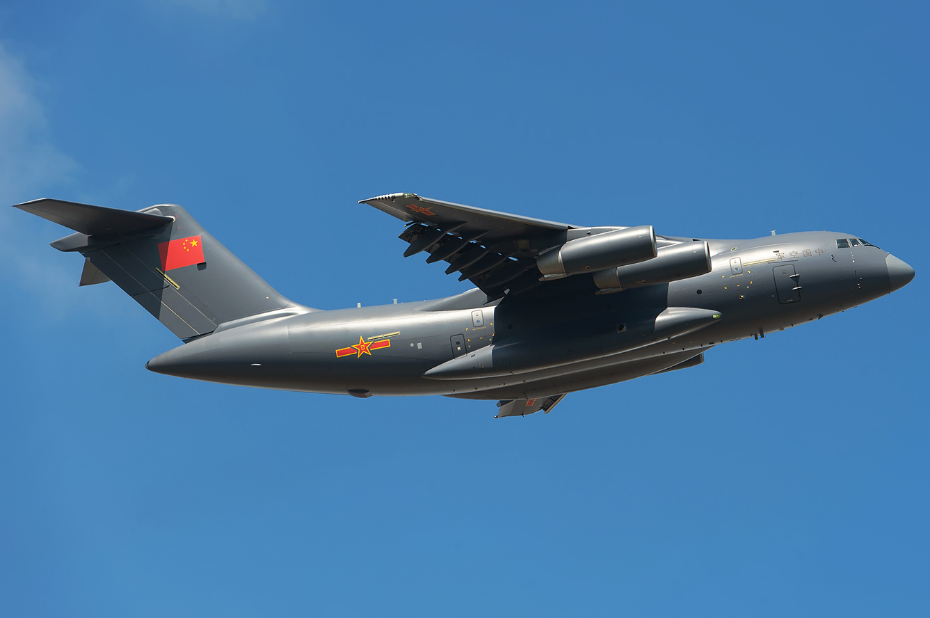 China - Air Force Xian Y-20 Reg.: 789 MSN: 011 at Zhuhai - Sanzao (ZUH / ZGSD) China - October 28, 2016